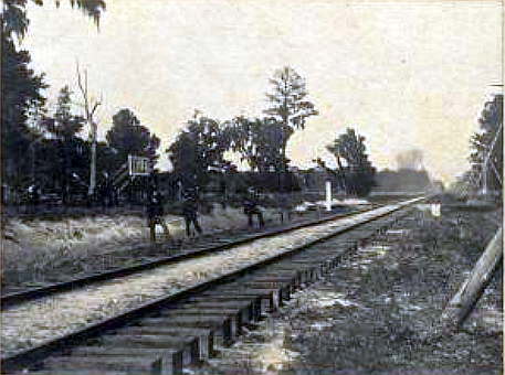 "Ansley, Miss." View of men standing on railroad tracks. Ansley, Mississippi was a flag stop on the Louisville and Nashville Railroad